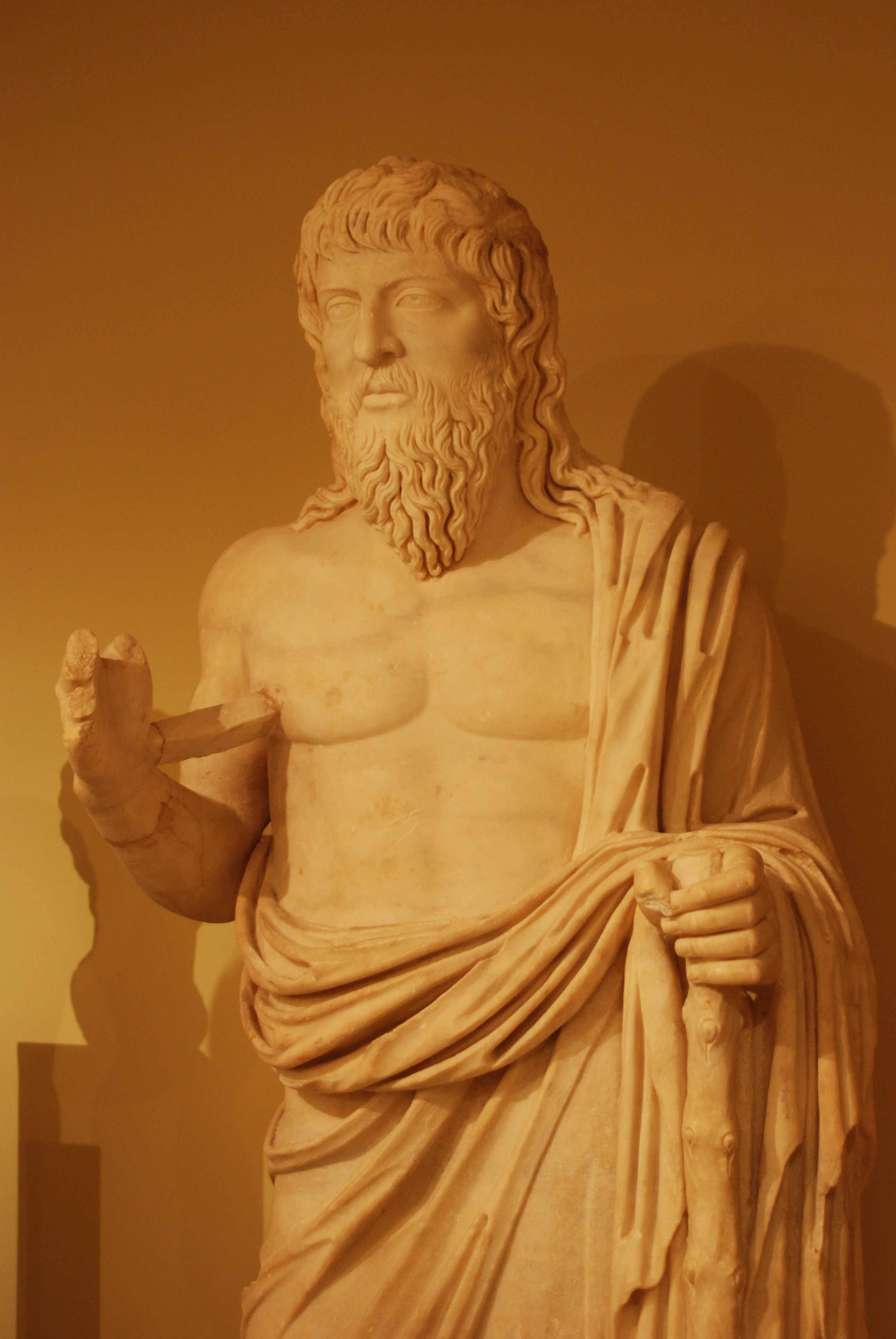 Marble statue in the type of wandering philosopher of the Hellenistic period. The type Is Inspired by models of the 4th c. BC. Probably is represented Apollonius of Tyana, a very famous neo-pythagorelan philosopher of the 1st C. AD. who lived a part ofhis life in Crete and died there. Gortyn. Roman Imperial times (late 2nd c. AD)